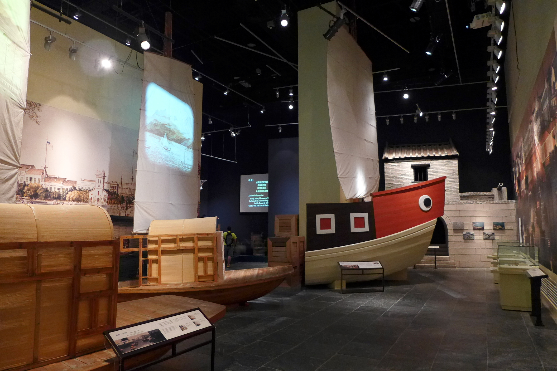 HKHM New Territories Heritage Hall